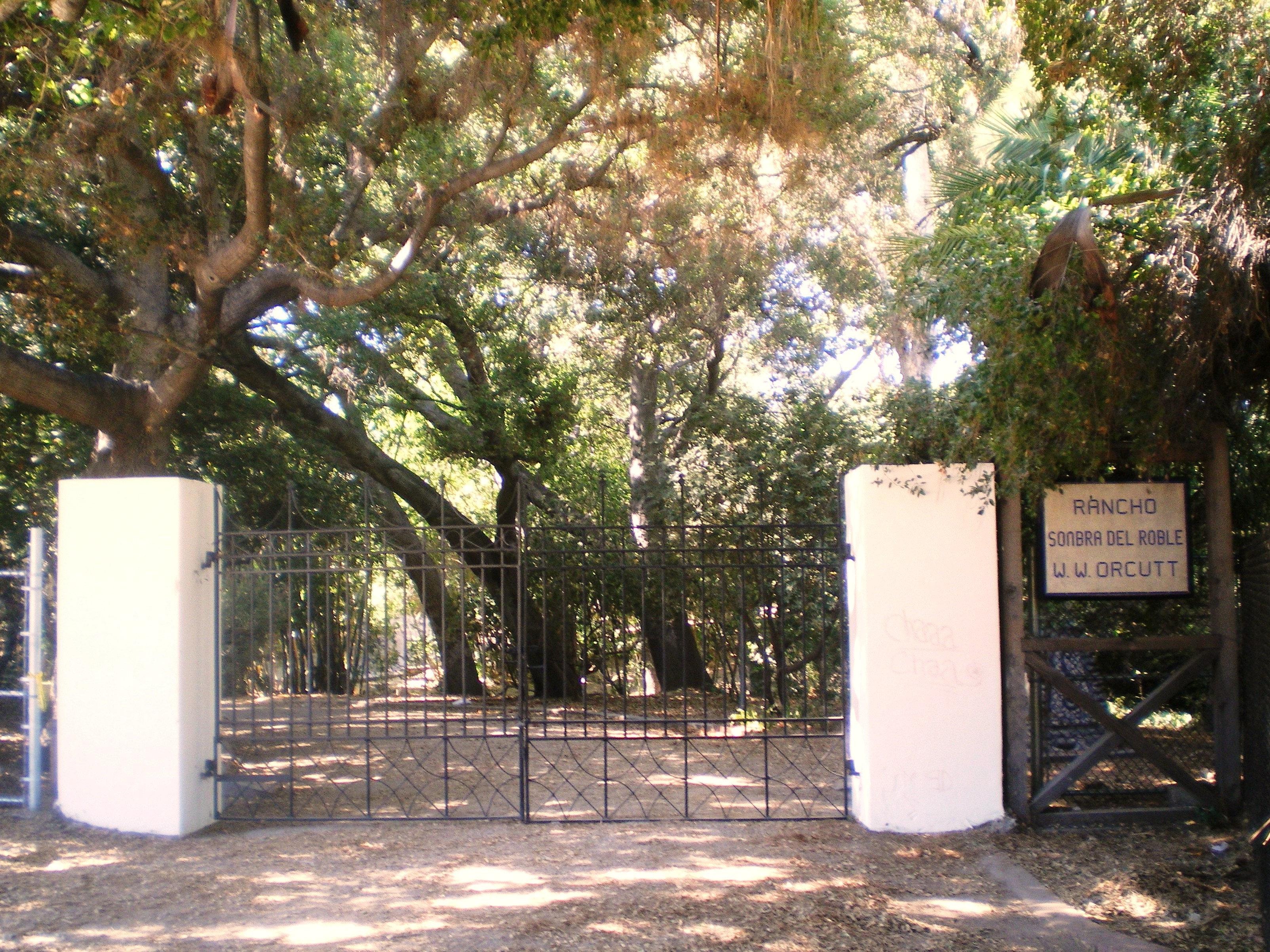 Orcutt Ranch - Rancho Sombra del Roble - the wrought iron main gate, in the western San Fernando Valley, Southern California. Built in 1926 as the formal entry to the 100 acre estate, now part of the Orcutt Ranch Horticulture Center park, gardens and citrus orchards, historic house museum, and community gardens. A Los Angeles Historic-Cultural Monument located at 23555 Justice Street (public entrance on Roscoe Boulevard), West Hills - formerly Canoga Park, Los Angeles, California